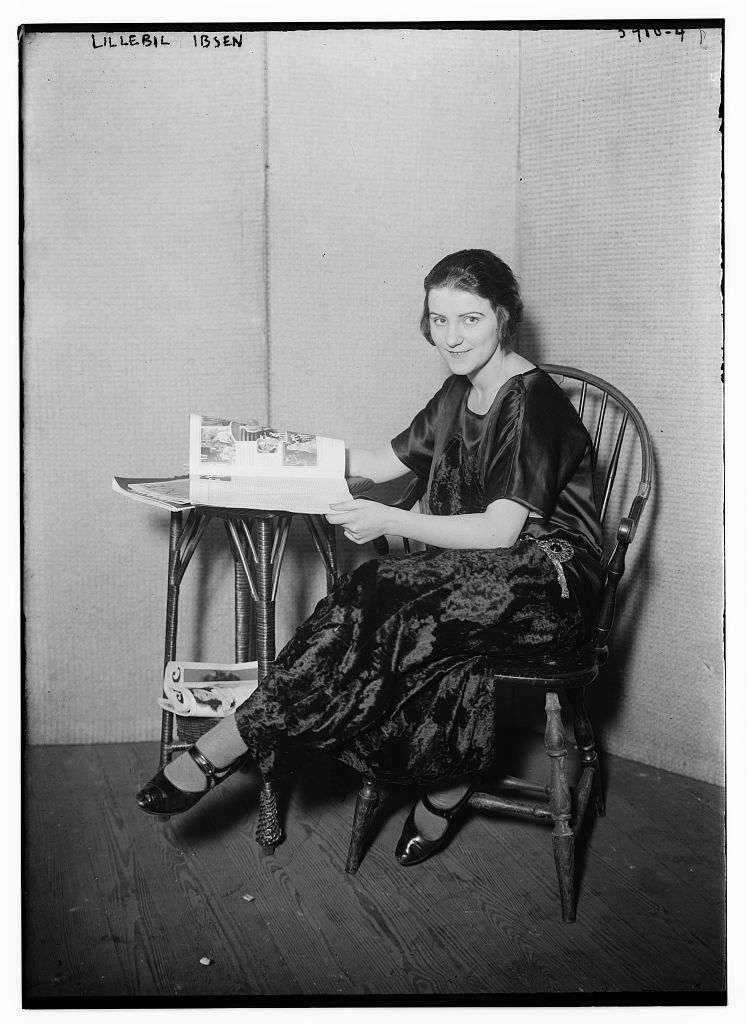 The Norwegian actress Lillebil Ibsen.